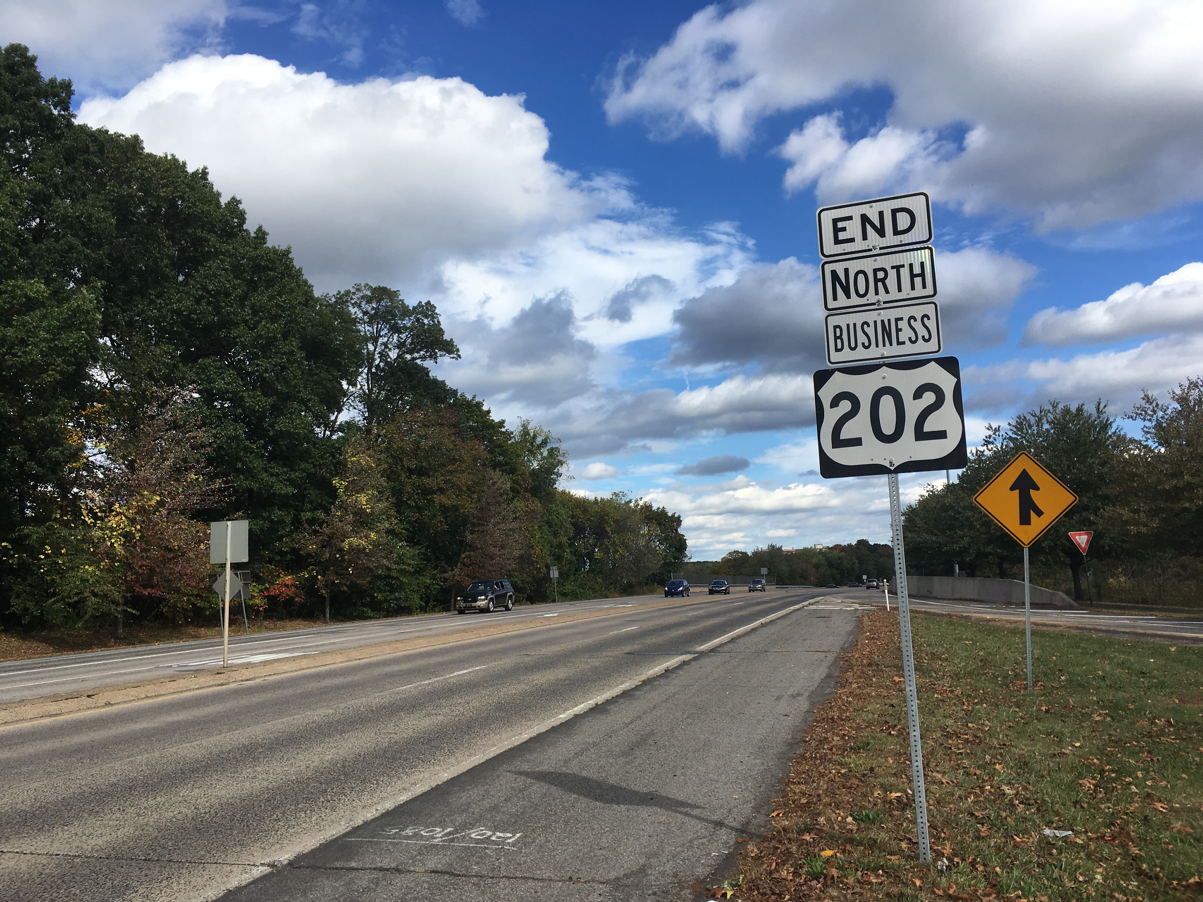 Northbound U.S. Route 202 Business (State Street) at its northern terminus at an interchange with Pennsylvania Route 611 (Doylestown Bypass) in Doylestown Township, Pennsylvania